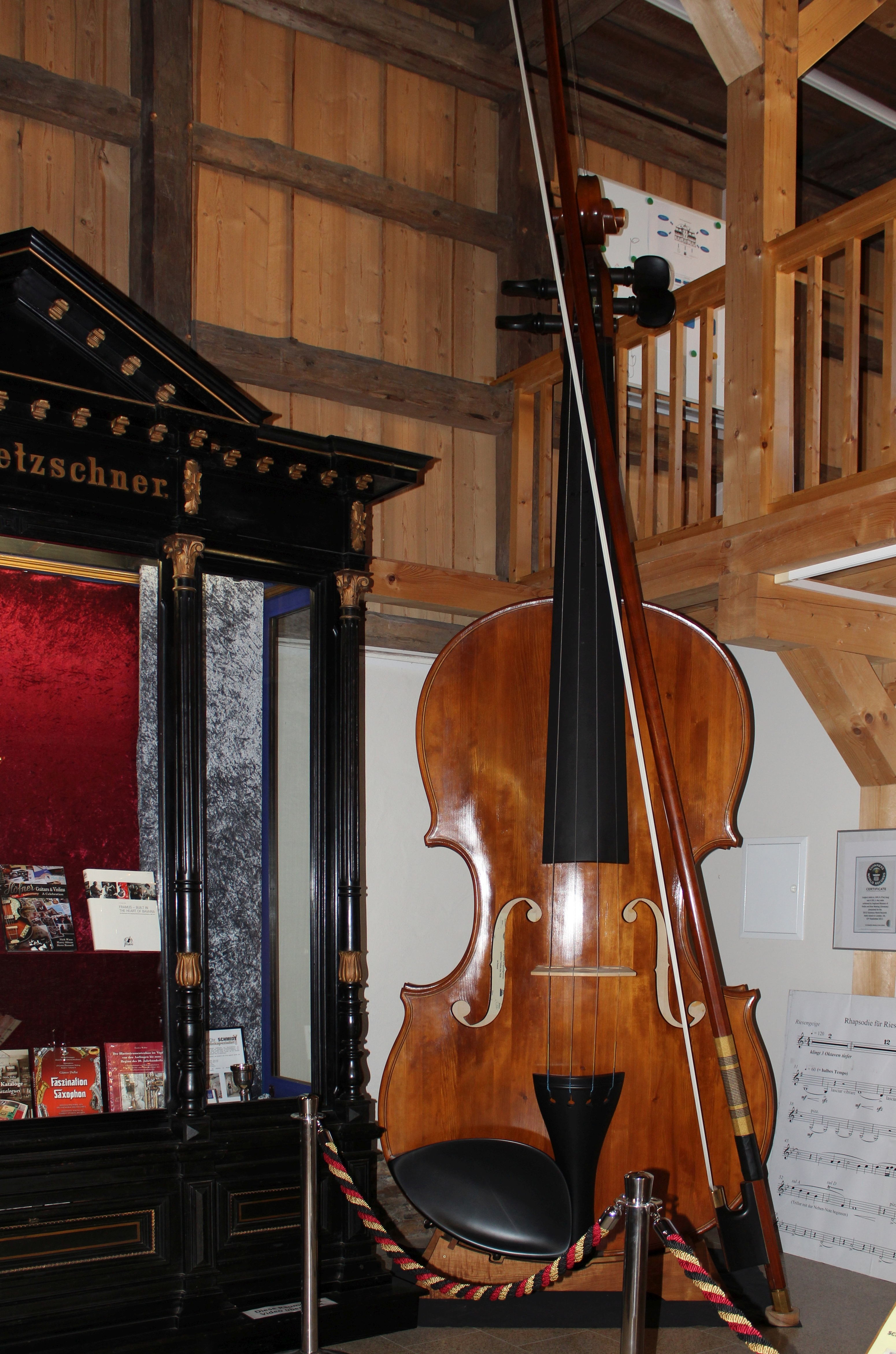 Musical Instruments Museum Markneukirchen: Giant violin, the world's largest playable violin, recorded in the book "Guinness World Records" 2012